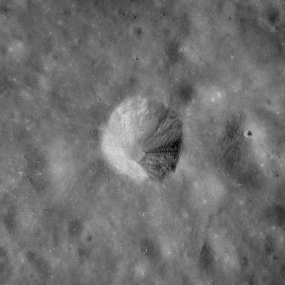 Joy, on the moon.